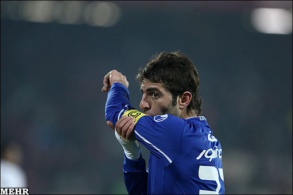 Esteghlal 3 - 0 Persepolis